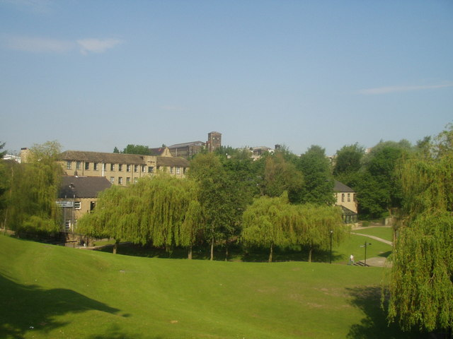 "The Amphitheatre", Bradford University. Taken at 9am on a beautiful summer's morning. Later in the day it was full of lounging students and their barbecues.